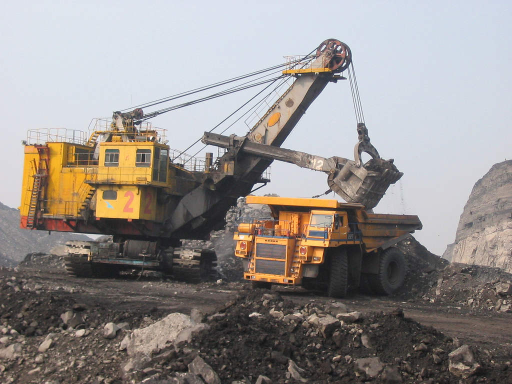 Mining in Russia near Mezhdurechensk, Kemerovo Oblast.